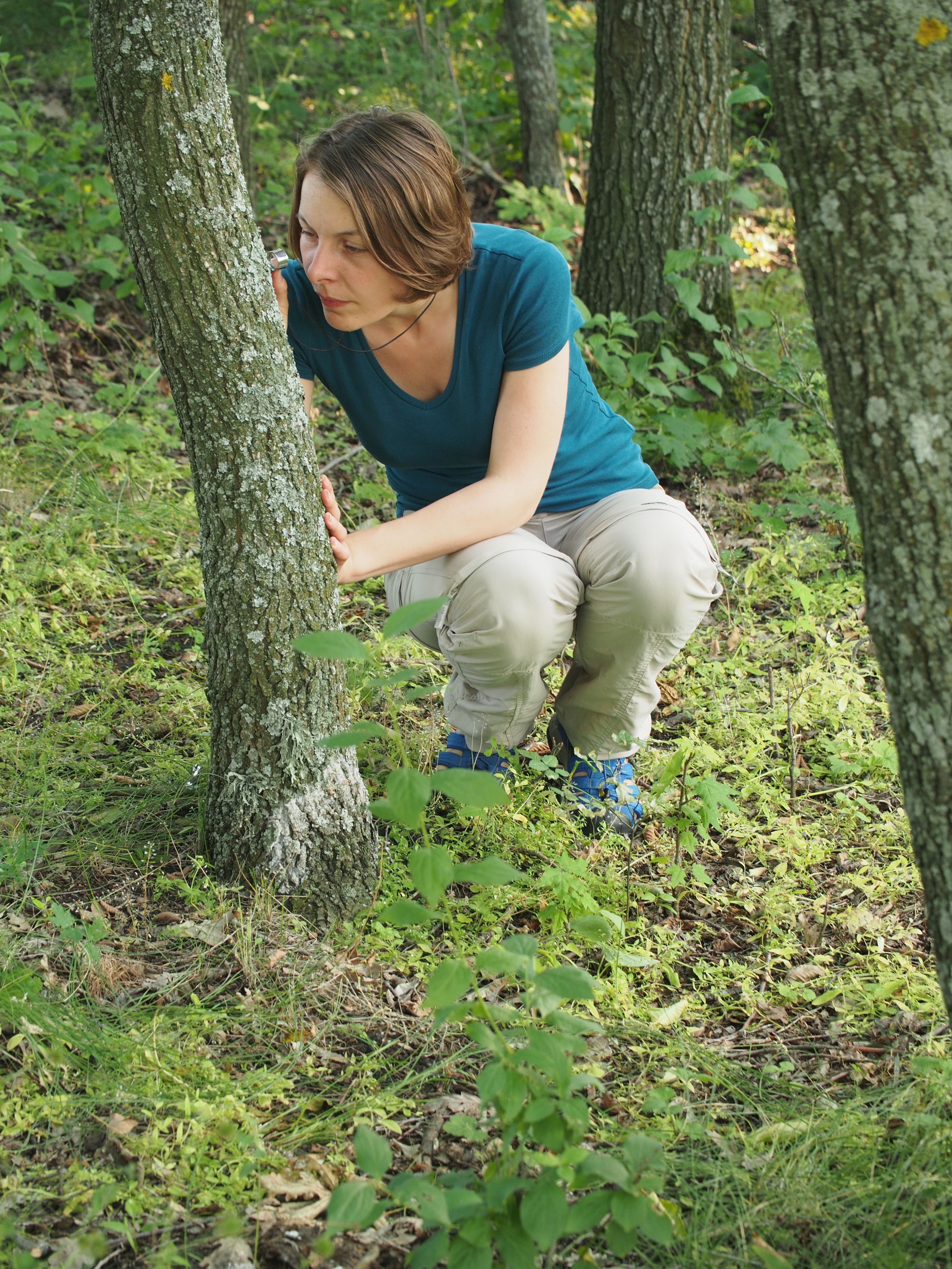 Kapets N. - PhD student of the Department of Lichenology and Bryology of the M.G. Kholodny Institute of Botany NASU, investigates lichens and lichenicolous fungi. National Nature Park "Karmelyukove Podillya", 24.06.2016.